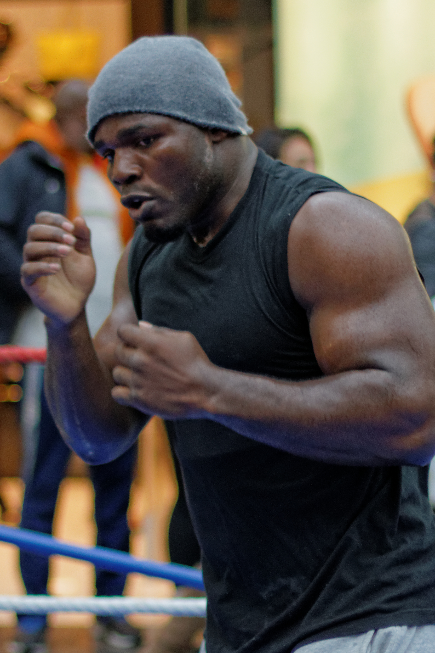 Boxer Carlos Takam during a public training session (Le Milléaire, Aubervilliers, France), before his fight against Tony Thompson.